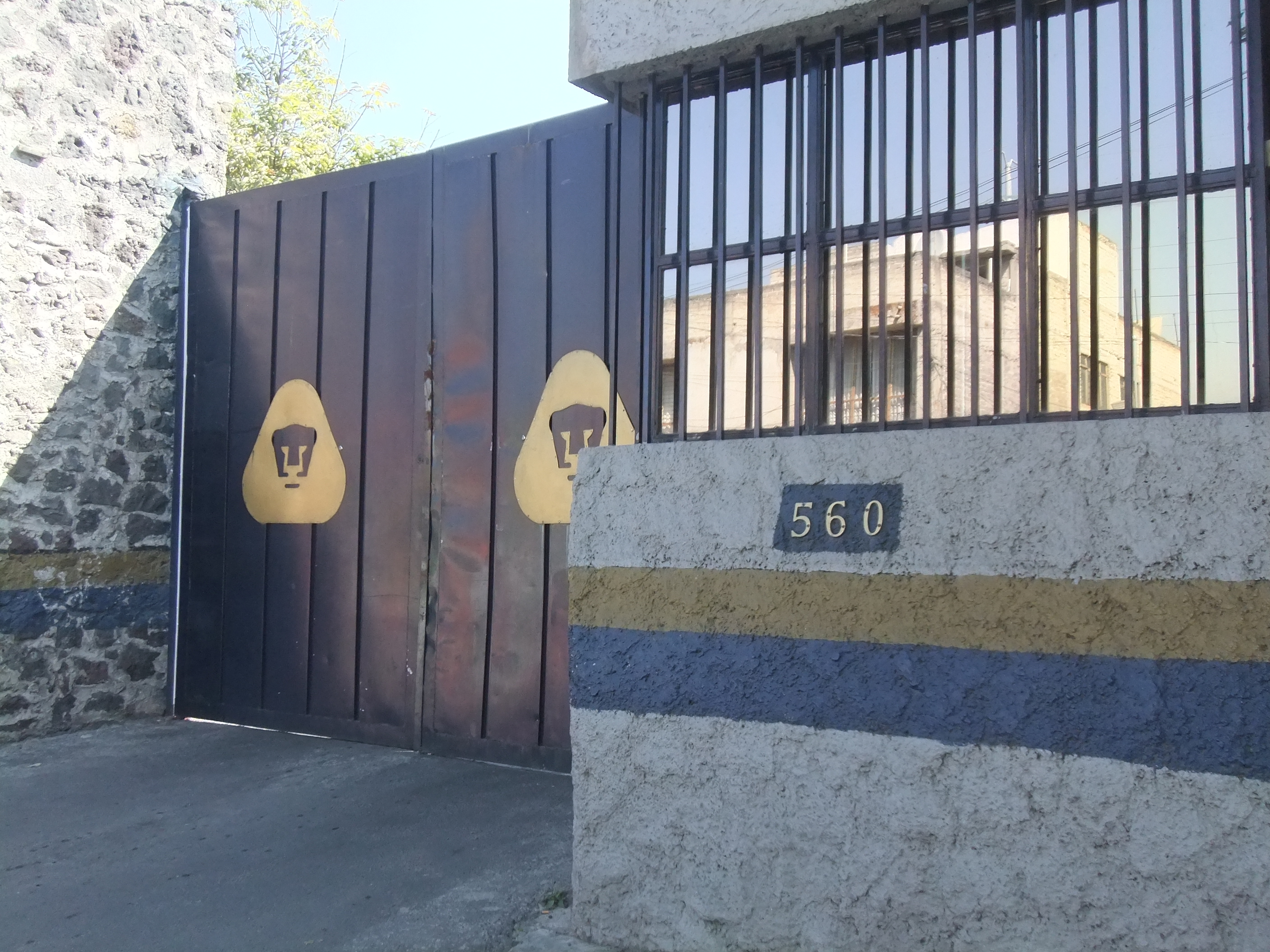 The entrance of the building where the mexican team of football "Pumas Universidad" practices. This place is known as "Cantera de los Pumas"